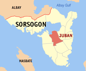 Map of Sorsogon showing the location of Juban